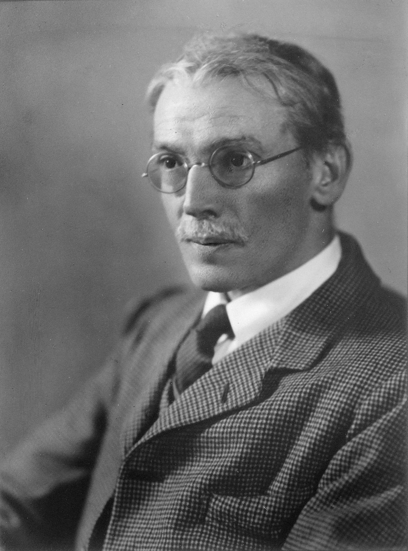 Herbert Edward Palmer silver print 27 x 17 cm late 1930s